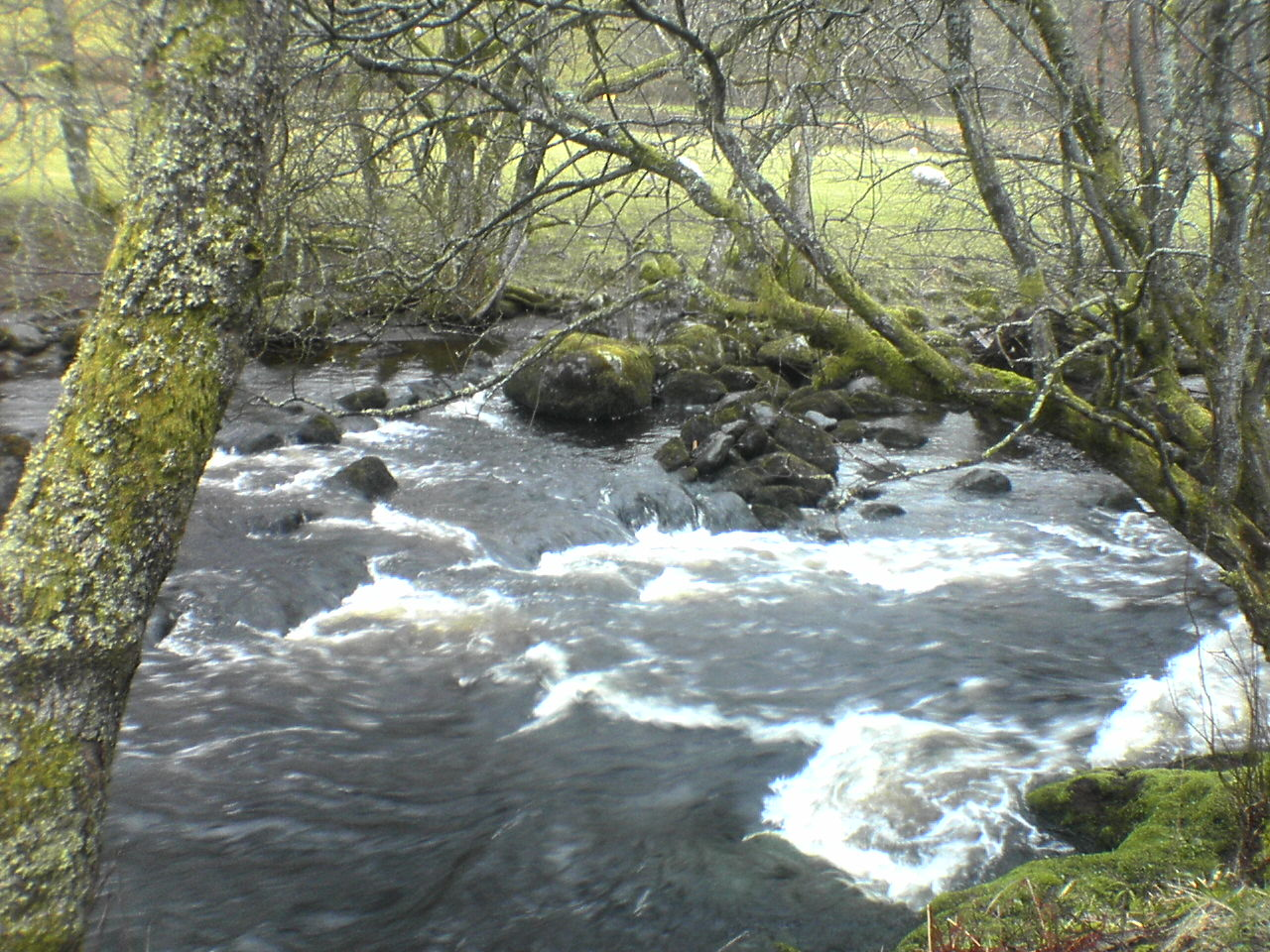 Author = me Jamsta 12:17, 15 September 2006 (UTC)